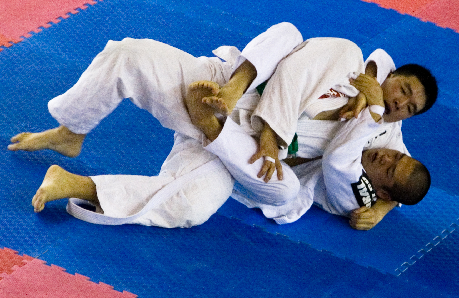 Here is another guy from my gym with his hooks in and applying what looks to be a neck crank on his opponent. Ultimately he did no submit his opponent, but instead one on points.